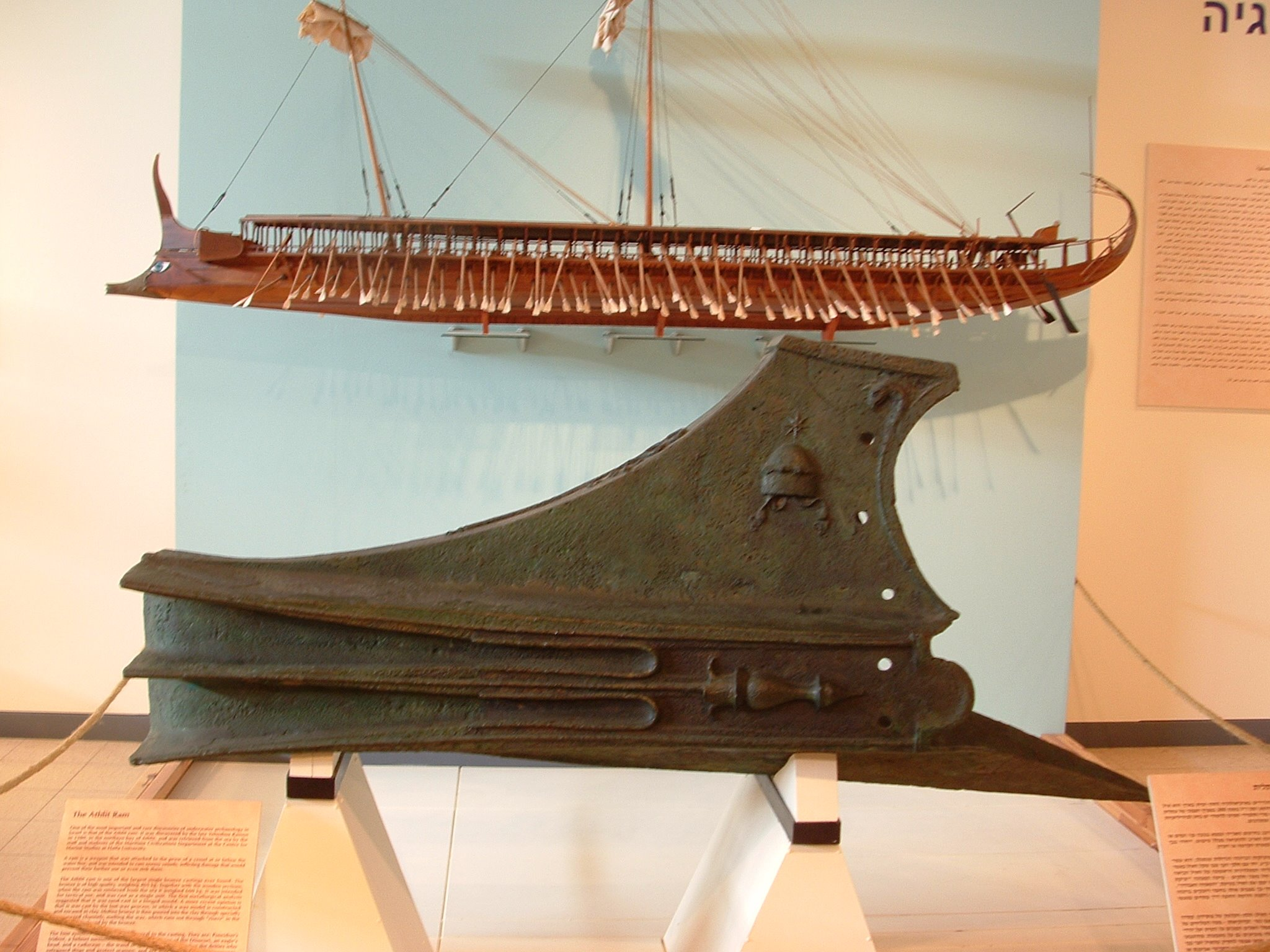 Israeli National Maritime Museum- Exhibitions המוזיאון הימי הלאומי - פריטים מהתצוגה This image was taken as part of the Elef Millim project trip and within the Wikipedia Loves Art project to the National Maritime Museum in Haifa in the northern part of Israel, which was held on Friday, 22nd January 2010. To view all images uploaded as pary of the Elef Millim Project This image was given with courtesy of Israel Antiquities Authority To view all images uploaded as courtesy of the Israel Antiquities Authority Ram from a Greek warship, made from bronze. 2nd century BCE recovered from the sea at Athlit Israel איל ניגוח ימי מאוניית מלחמה יוונית עשוי ברונזה. מהאמה ה-2 לפנה"ס. נמשה מן הים בעתלית